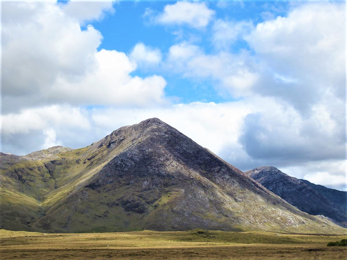 Letterbreckaun taken from the Inagh Valley